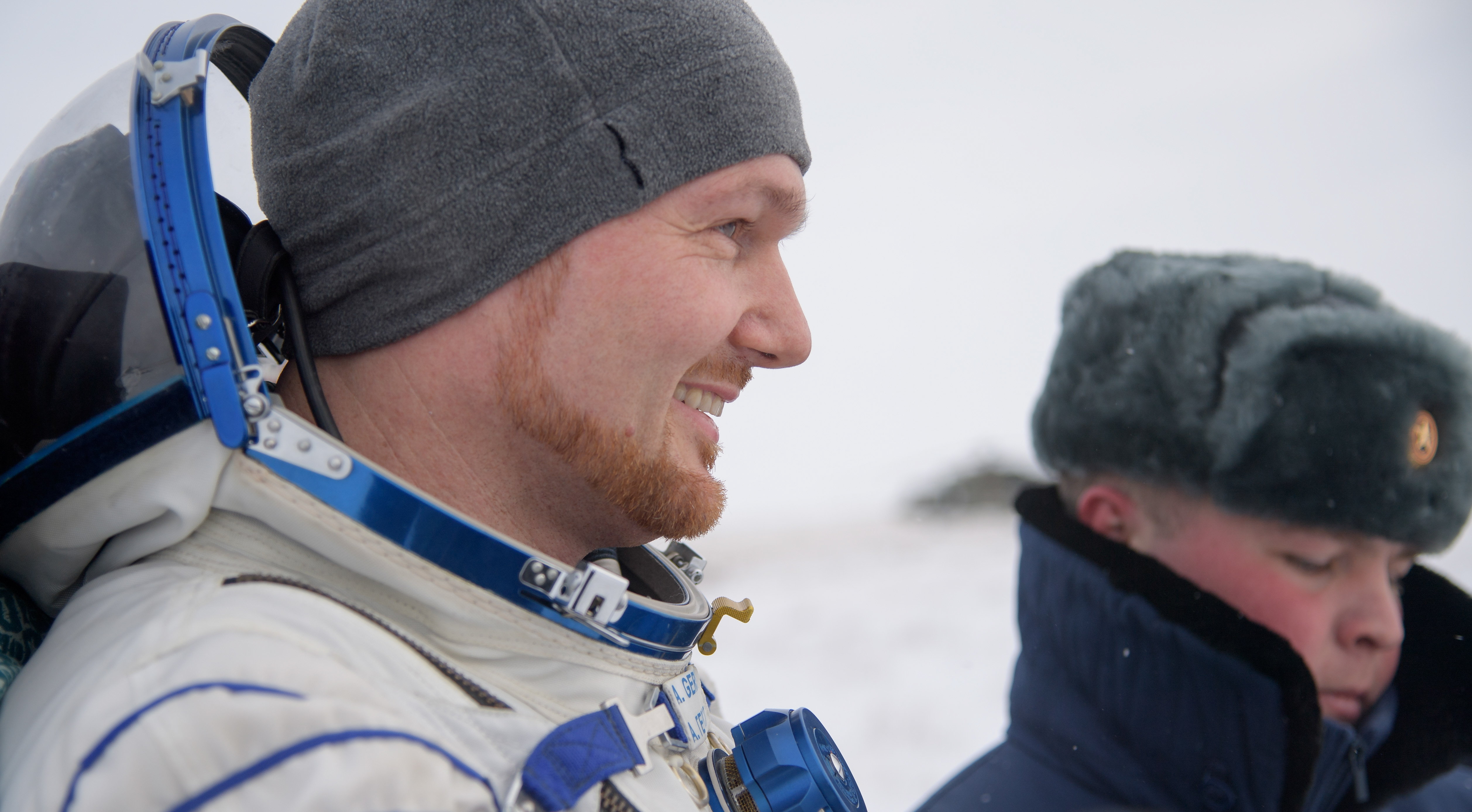 Alexander Gerst of ESA (European Space Agency) is carried to a medical tent shortly after he, Sergey Prokopyev of Roscosmos, and Serena Auñón-Chancellor of NASA landed in their Soyuz MS-09 spacecraft near the town of Zhezkazgan, Kazakhstan on Thursday, Dec. 20, 2018. Auñón-Chancellor, Gerst, and Prokopyev are returning after 197 days in space where they served as members of the Expedition 56 and 57 crews onboard the International Space Station.